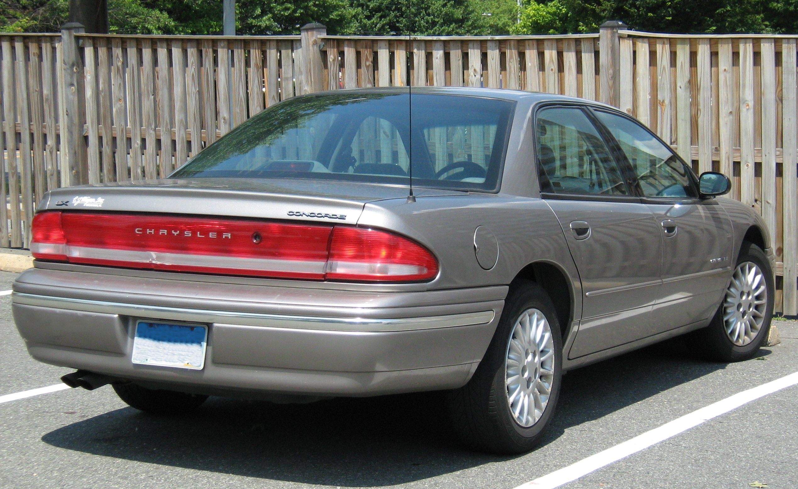 Chrysler Concorde LX. A silver sedan.